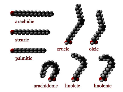 Image of several fatty acid molecules created by me with POV-ray. Originally in Lojban for a nuzban article, later translated. -phma